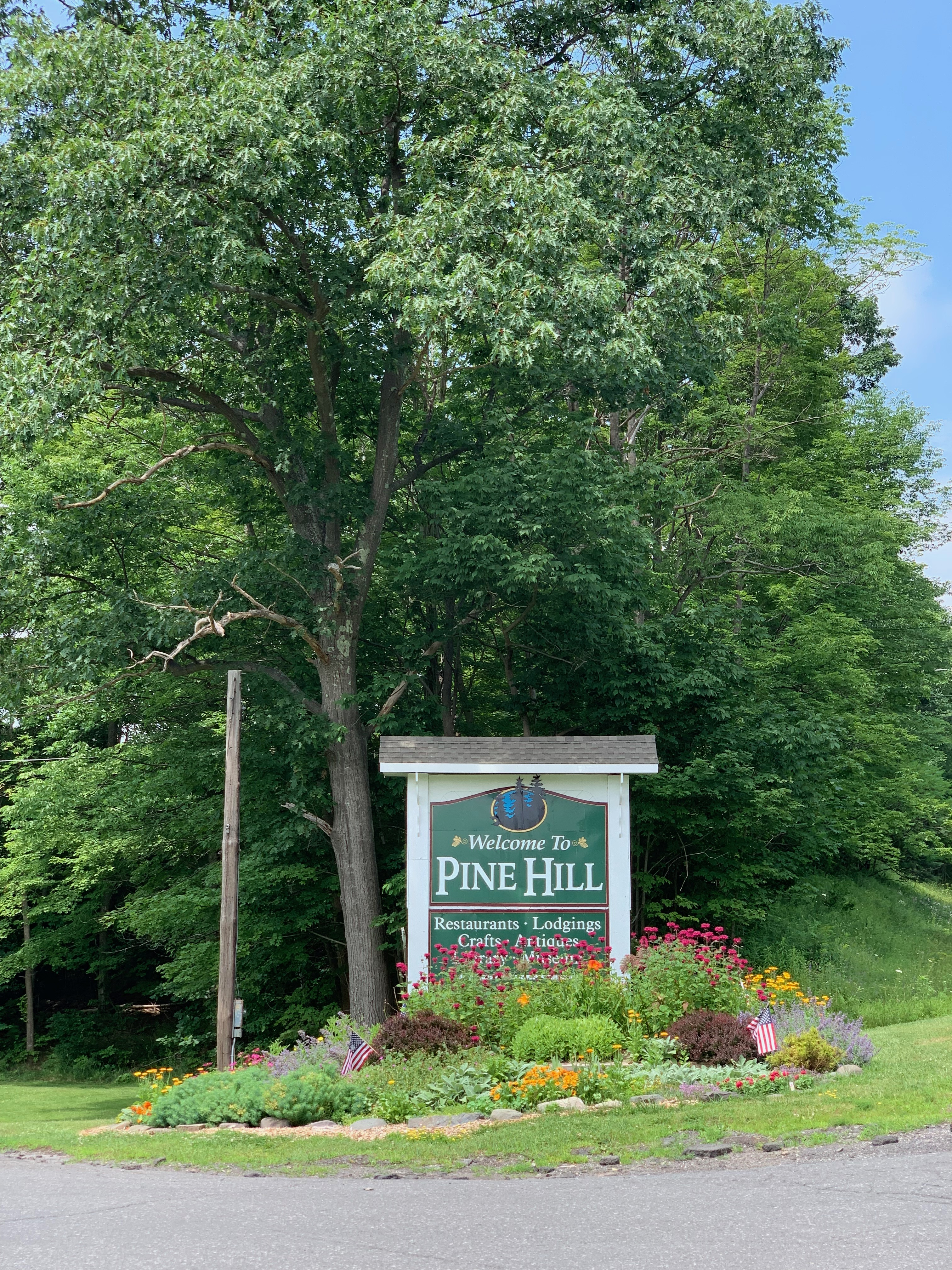 Southeast entrance sign and garden for hamlet of Pine Hill.